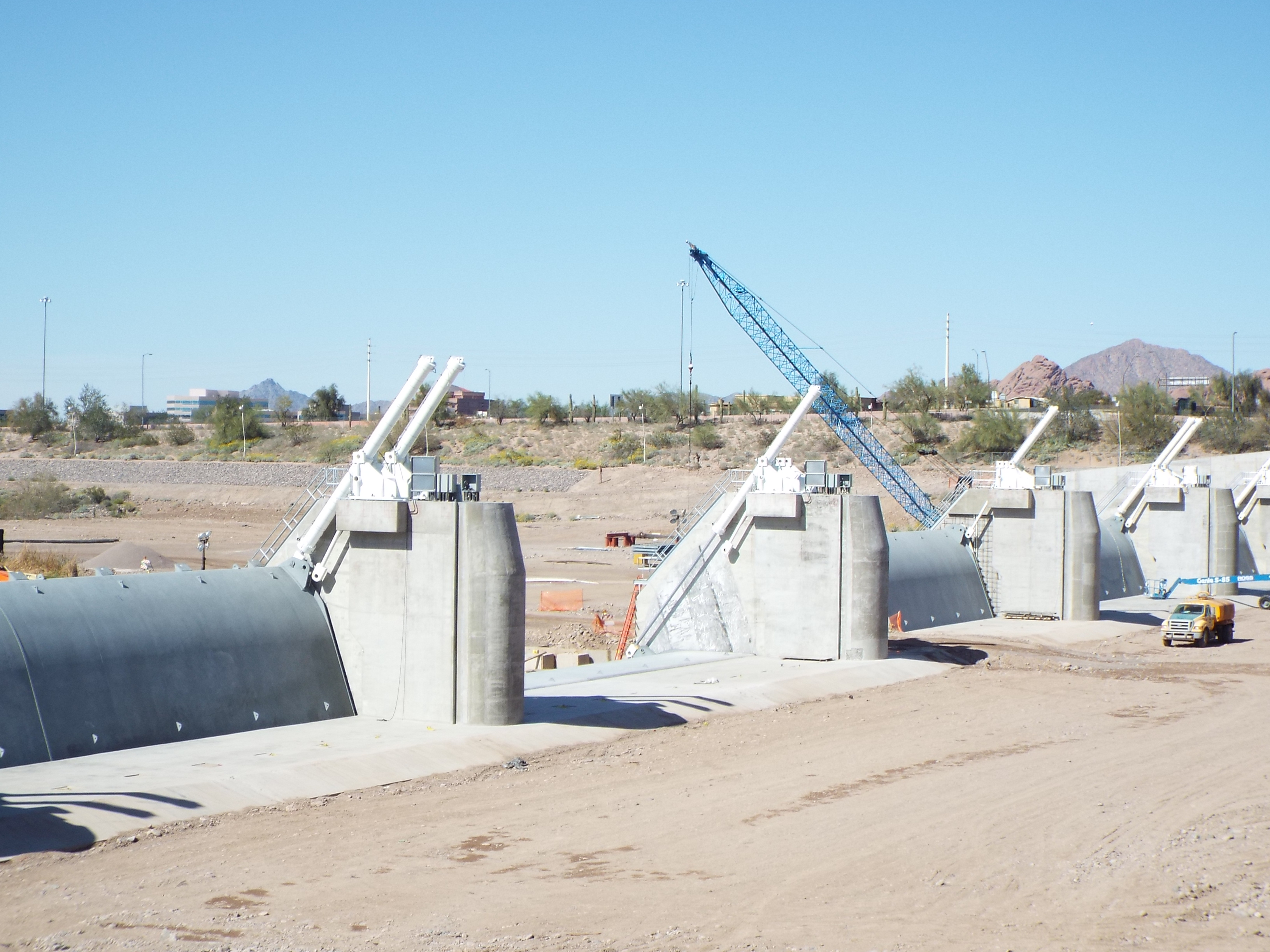 The New Tempe Lake West Dam being built in 2016.